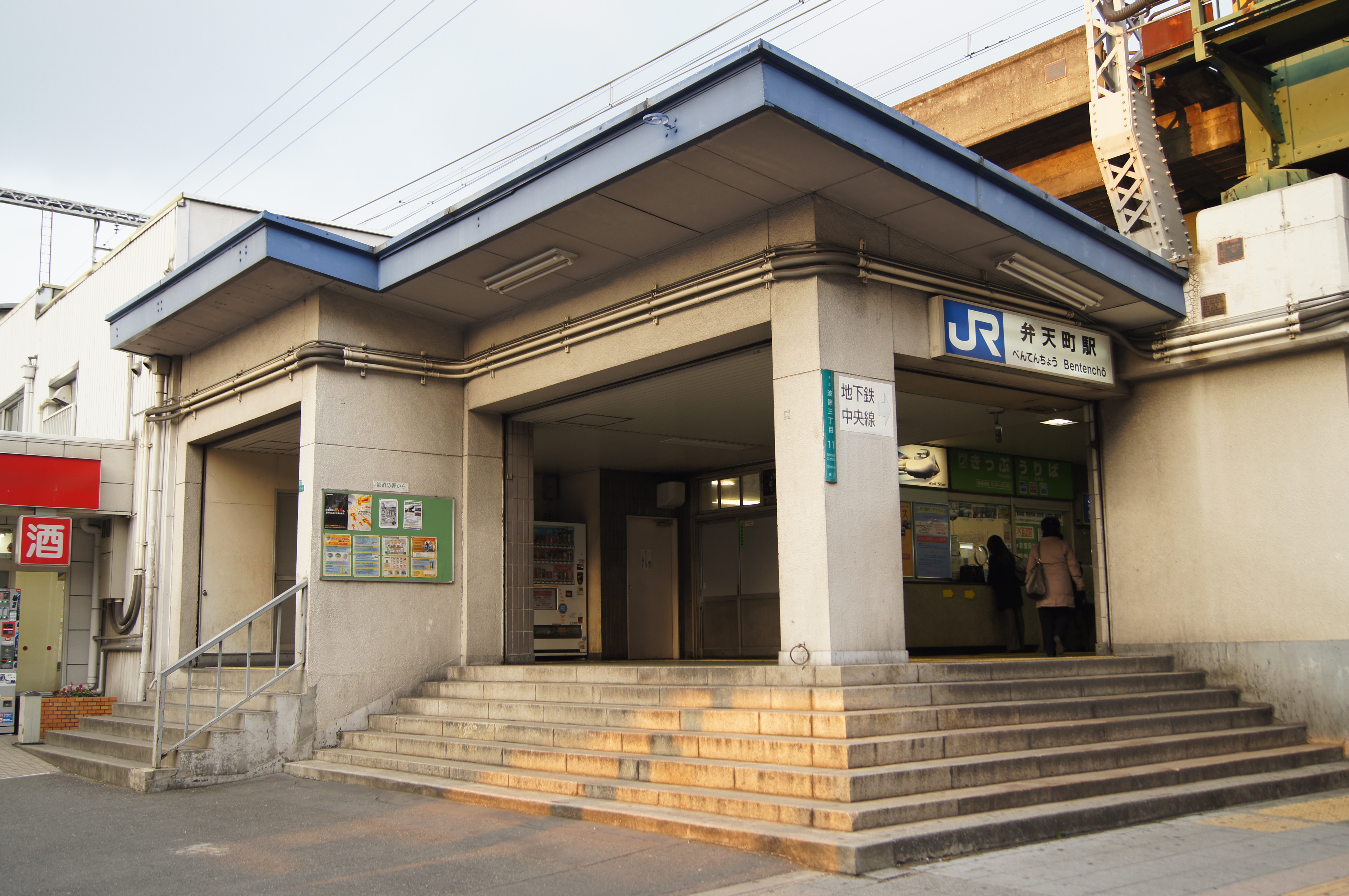 Bentencho Station Entrance